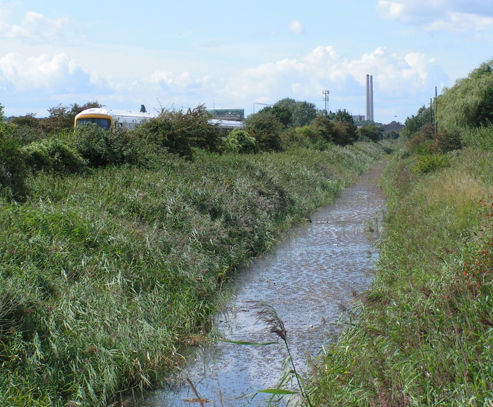 Thames & Medway Canal, Eastcourt Marshes. Photographed by James Gray 28th August 2006 & released under the GFDL.